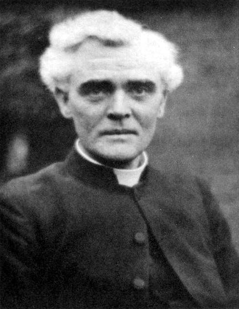 Rev. R.J. Campbell, Ealing, June 9th, 1914.